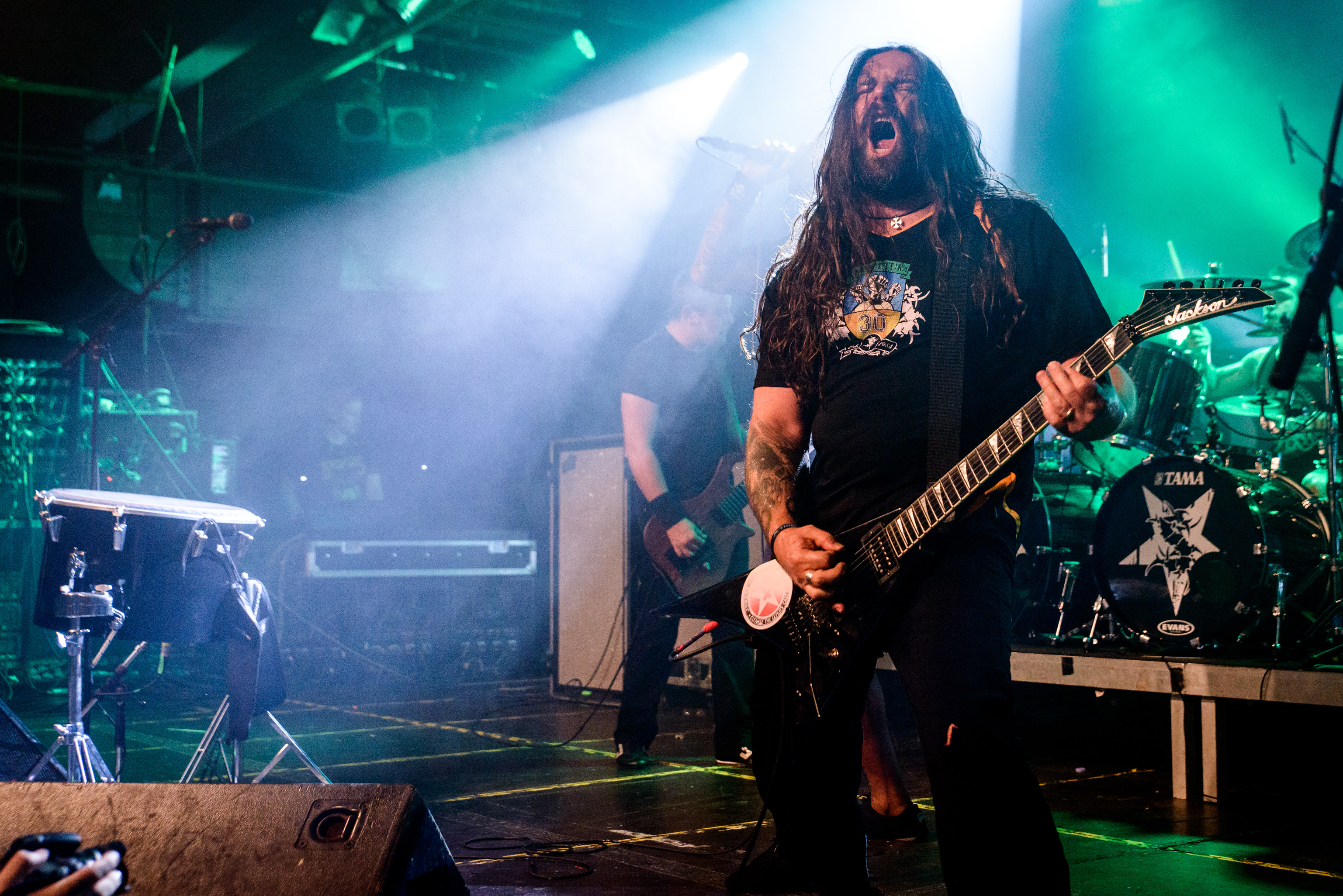 Sepultura Live @ Free & Easy Festival 2015